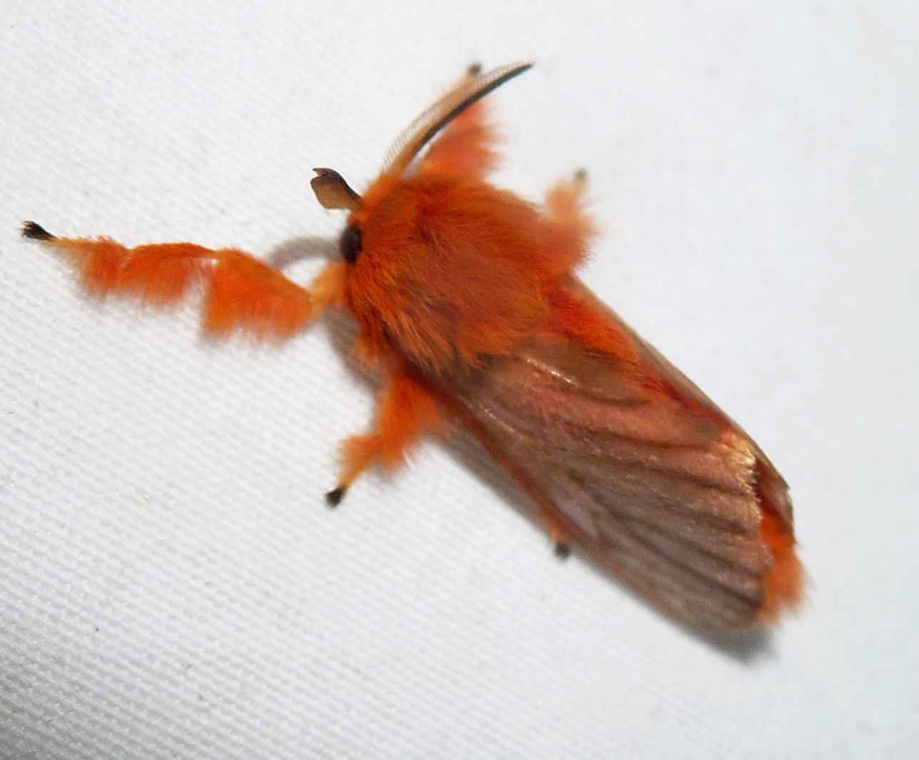 Superfamily - ZYGAENOIDEA Family - DALCERIDAE subfamily - ACRAGINAE